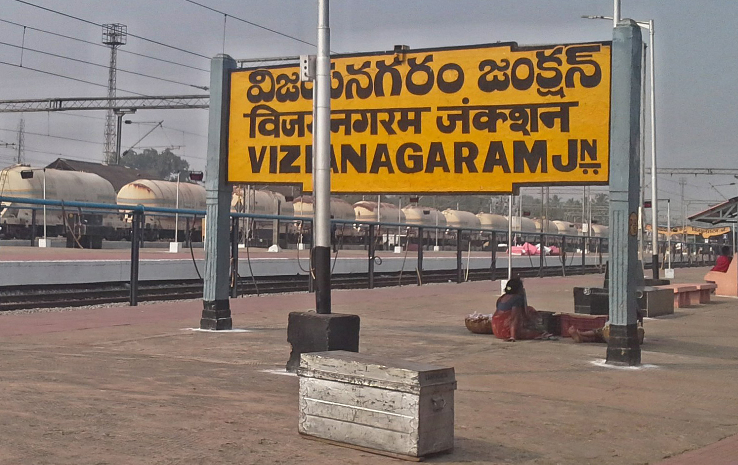 Vizianagaram junction train station name board